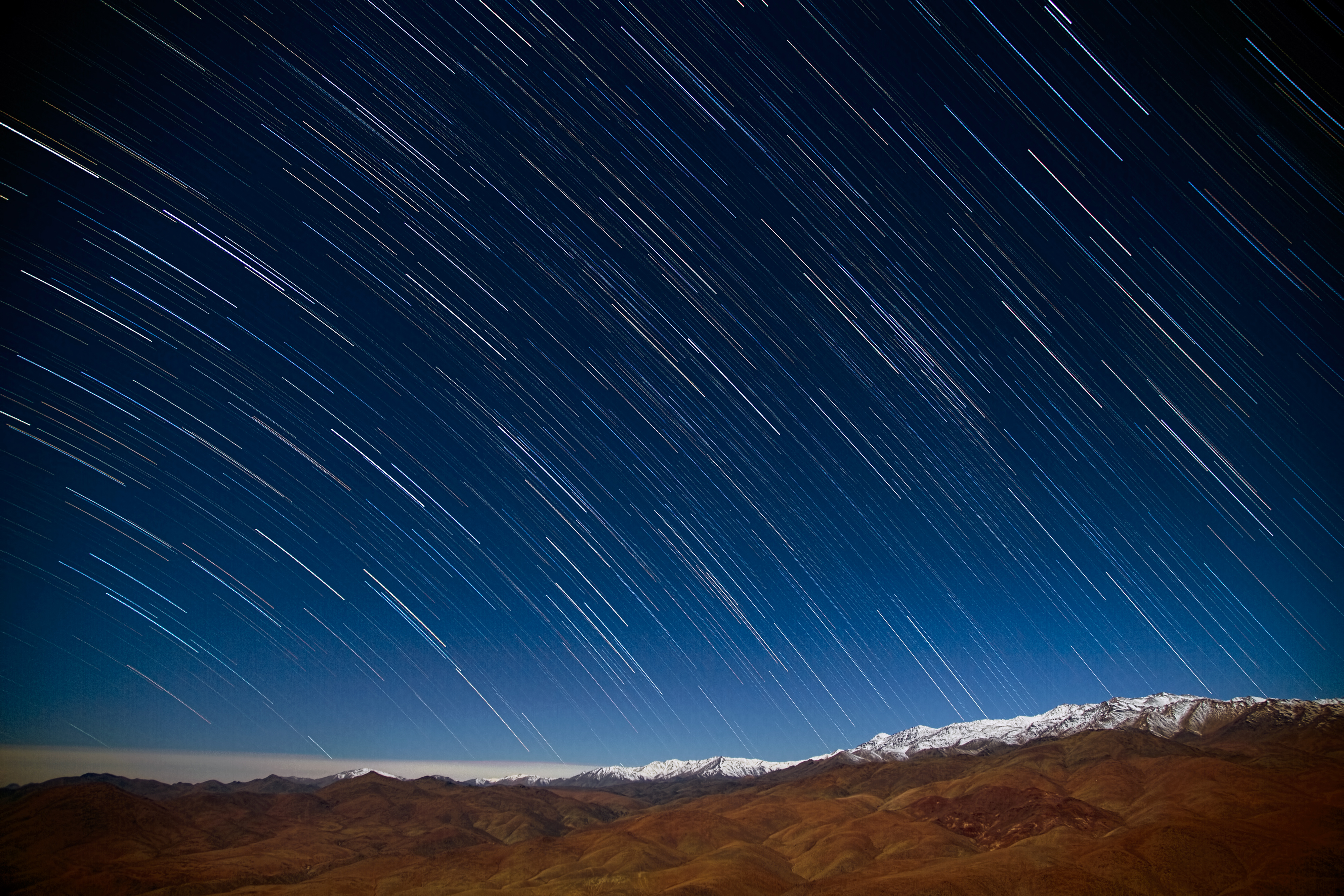 In the Atacama Desert in Chile, it rarely rains. Only once every few years does significant rain or snow precipitate on ESO’s La Silla Observatory, generally coinciding with an anomalously warm weather event such as an El Niño event. This desert is one of the driest places on Earth, making it a fantastic site from which to observe the night sky. Although there may be very little real rain, some photography tricks can instead make the stars appear to rain onto the surrounding mountains, as seen in this image taken on 21 May 2013 by Diana Juncher, a PhD student in astronomy at the Niels Bohr Institute, Denmark. Diana was at La Silla for two weeks in May 2013, observing exoplanets towards the centre of our galaxy as part of her research. During her stay she managed to take this image of star trails, taken only around 20 metres away from the Danish 1.54-metre telescope at ESO’s La Silla Observatory. Star trail photographs like these are shot using a long exposure time in order to capture the apparent motion of the stars as the Earth rotates. A wisp of snow covers the distant mountain tops, and soft clouds can be seen below La Silla, near the horizon to the left. The slightly darker and redder area to the right is an open copper mine. Copper is Chile's biggest economic asset — the country is by far the world leader in copper production.